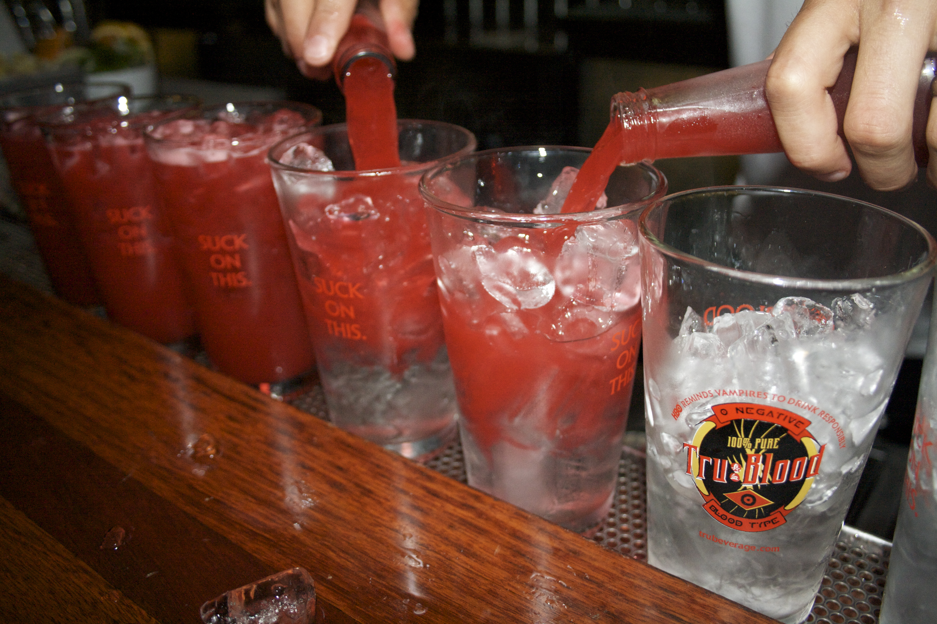 Tru Blood drinks